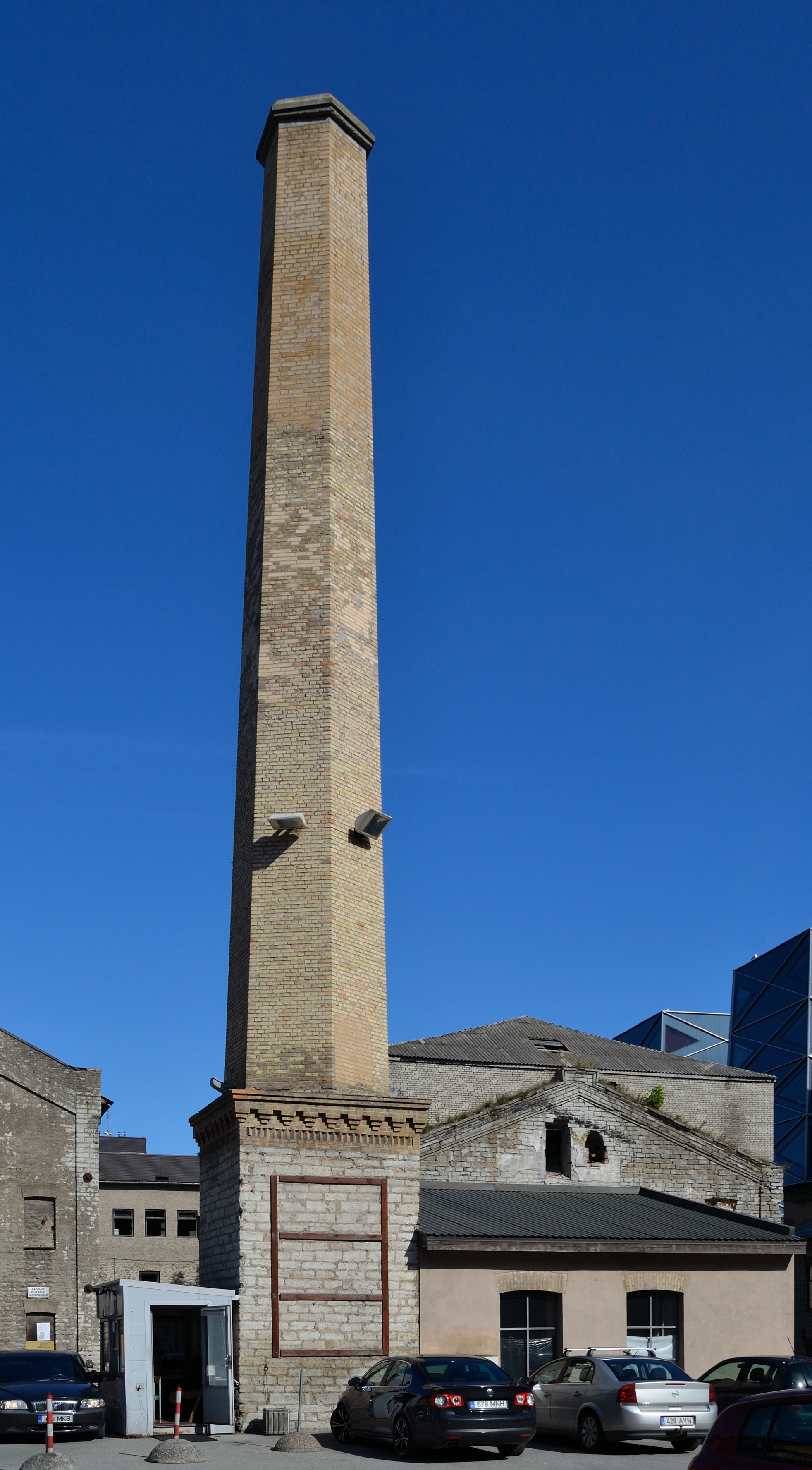 Tallinn, Roterman factory steam mill-forage chimney, 1879-1880, 1922